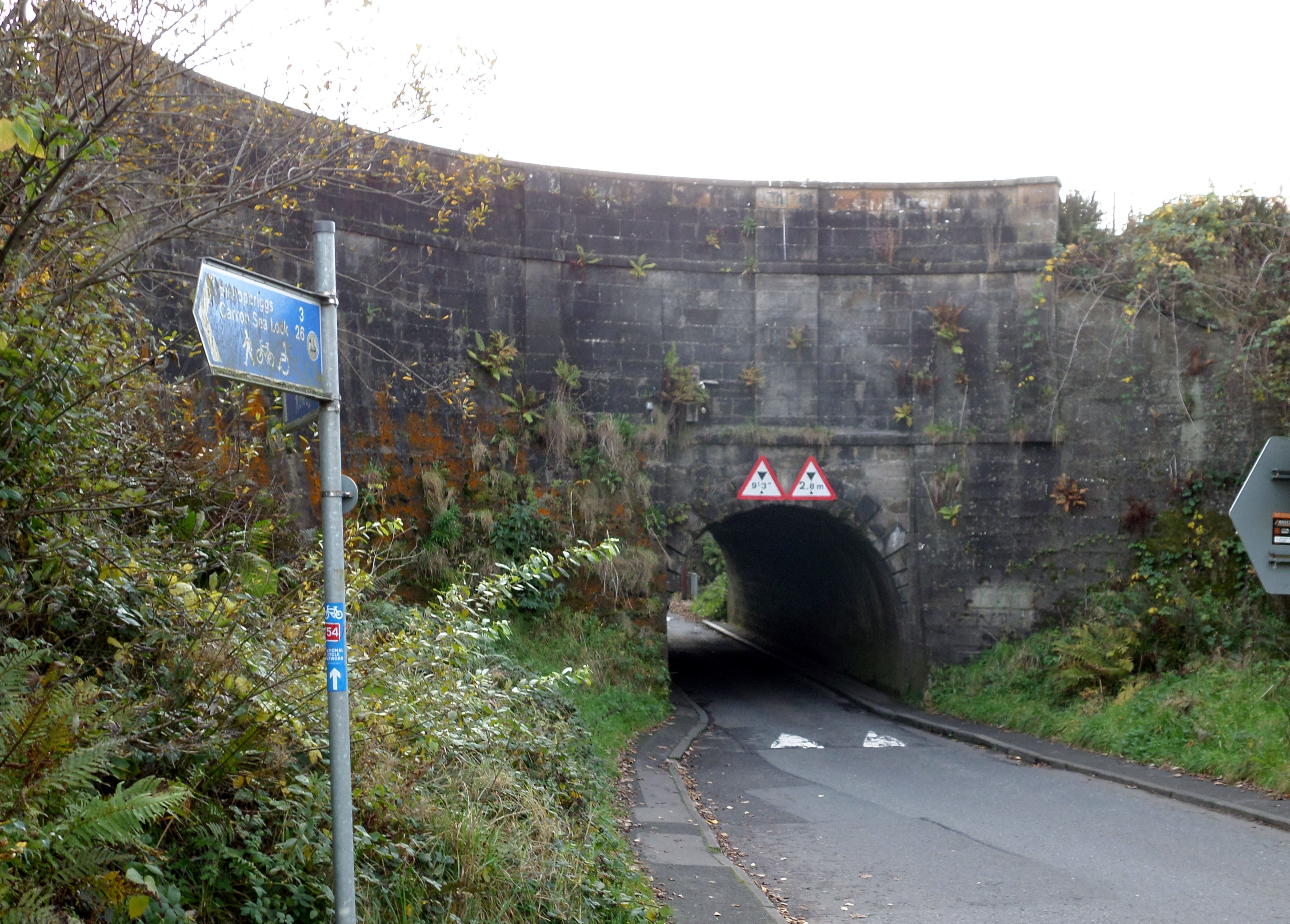 Stockingfield Junction aqueduct, Forth and Clyde Canal, Glasgow, Scotland.